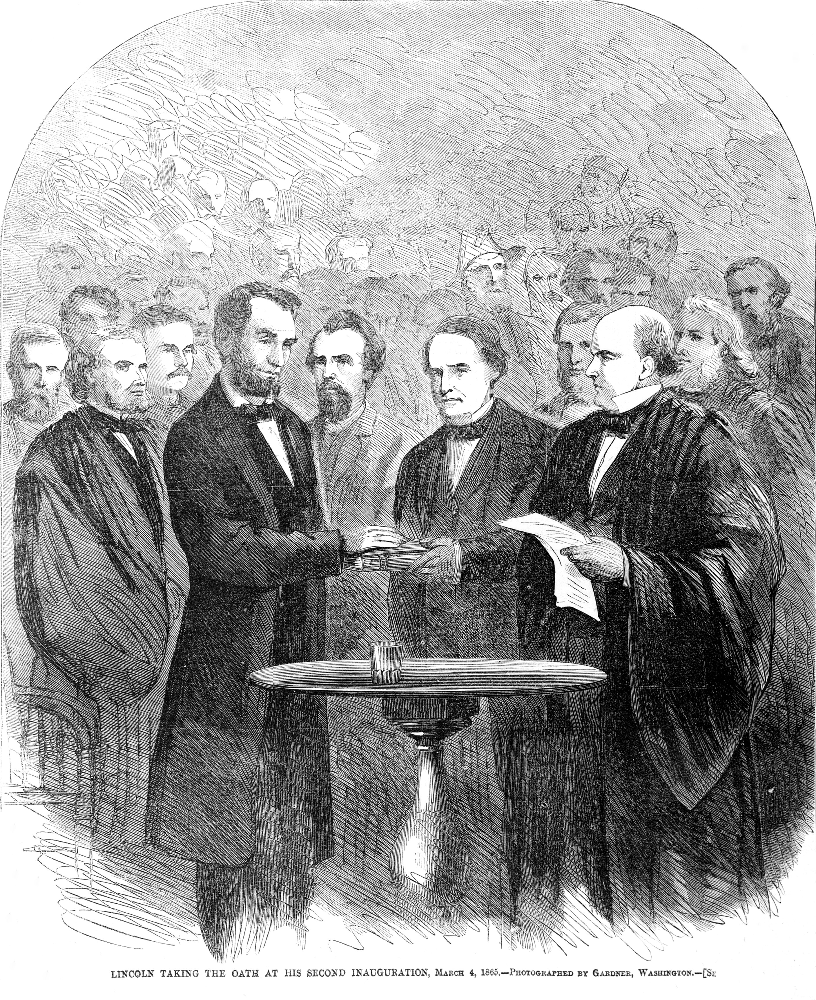 Lincoln taking the oath at his second inauguration, March 4, 1865. Lincoln with hand on Bible, Chief Justice Salmon P. Chase administering oath of office.